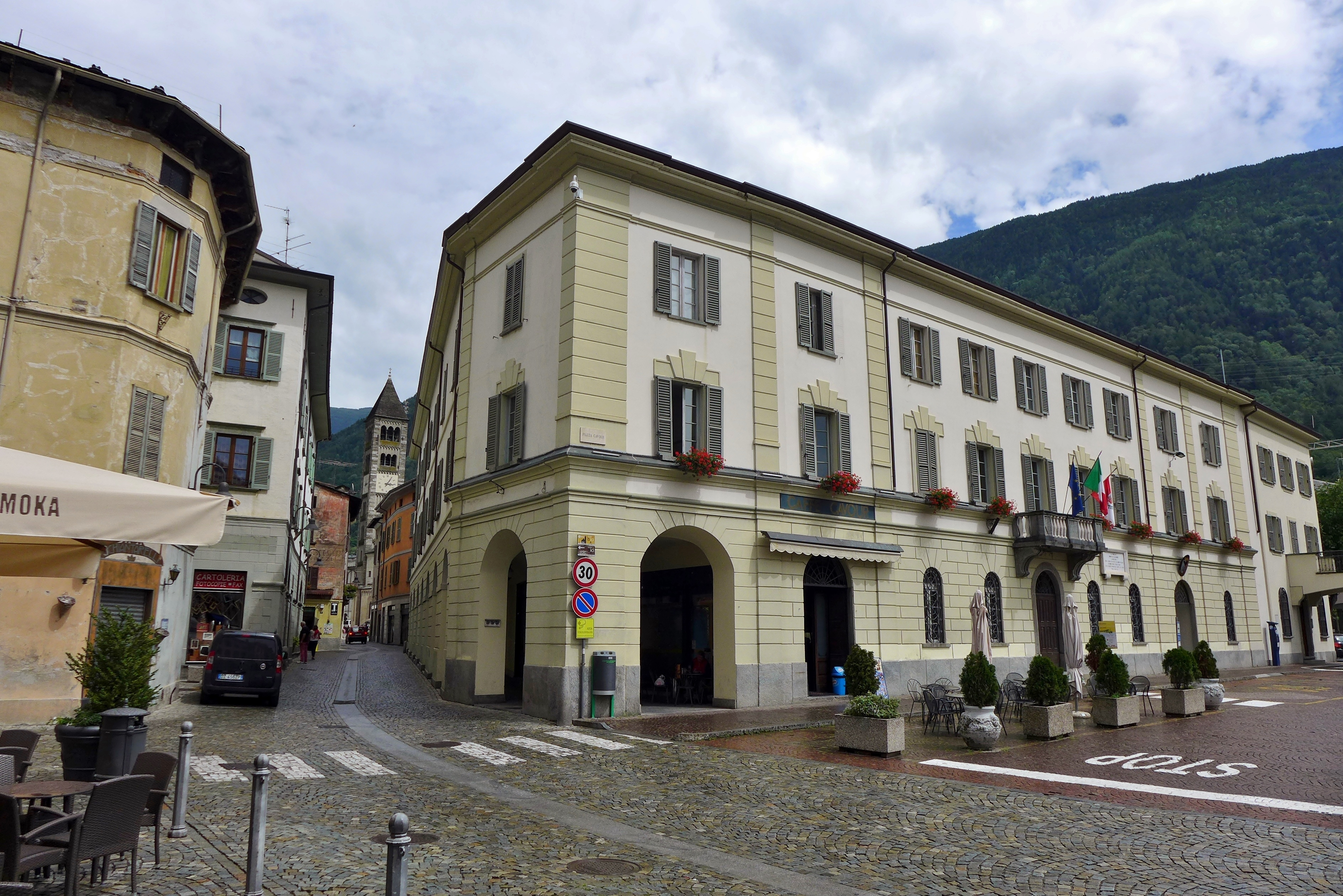 View of Piazza Cavour in Tirano, Italy.